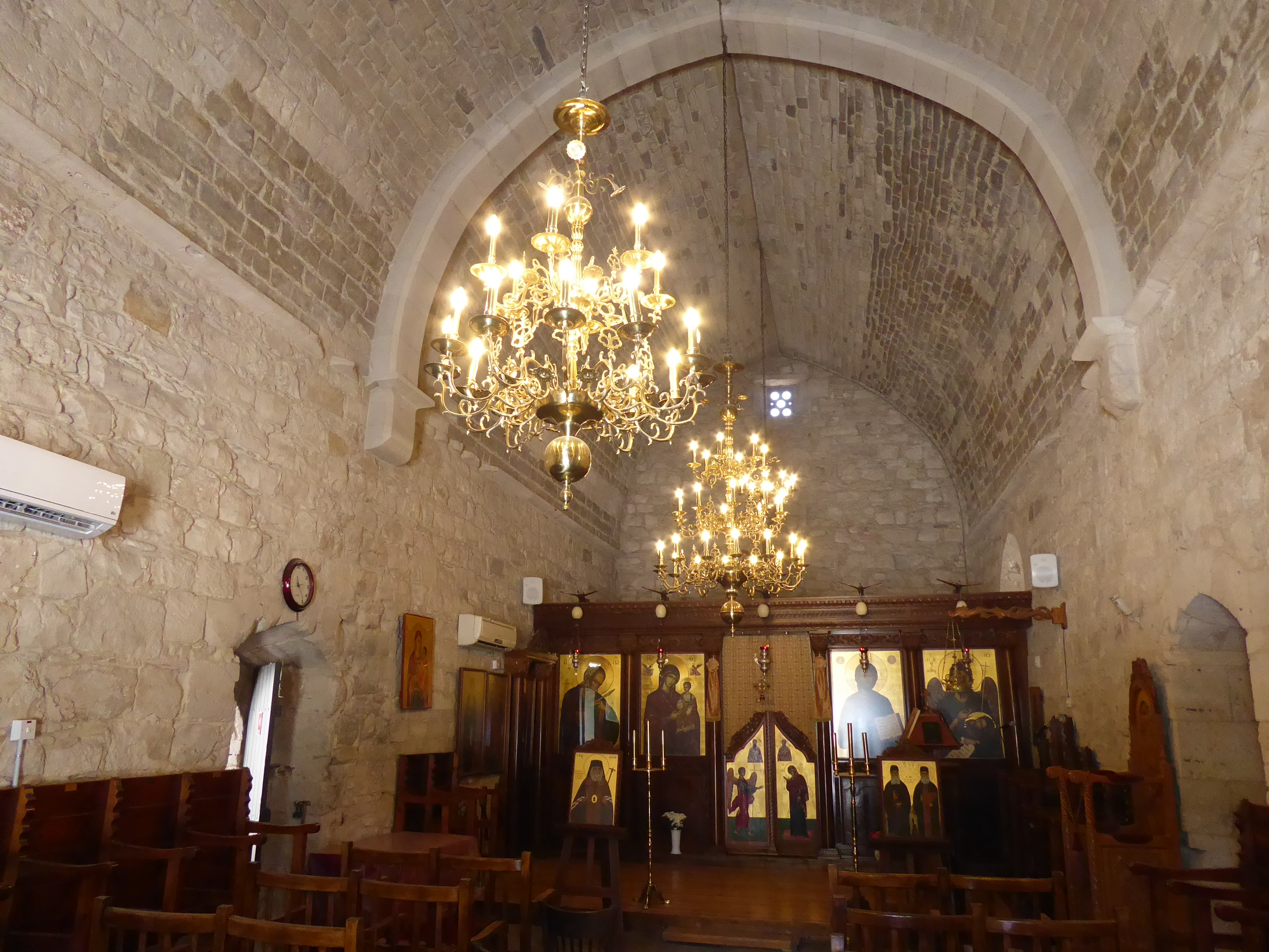 Panagia Karmiotissa